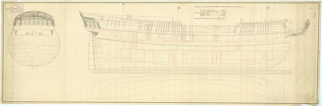 Plan showing the body plans with stern board decoration, sheer lines with inboard detail and figurehead, and longitudinal half-breadth for Dolphin (1781), a 44-gun Fifth Rate, two-decker, as built at Chatham Dockyard. Note that she had a single level of stern gallery windows.